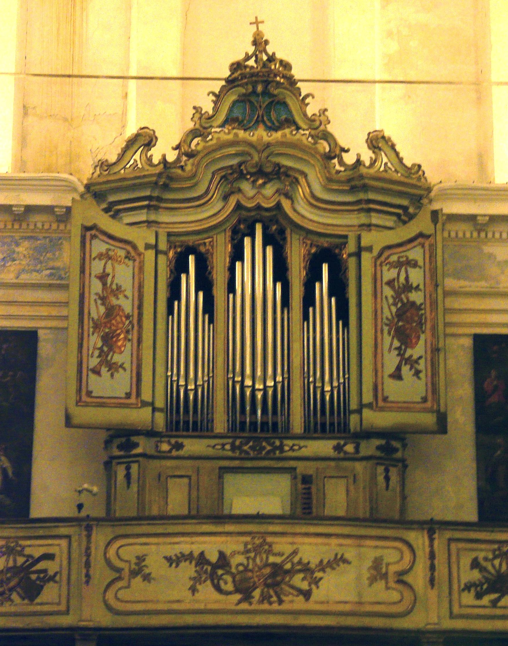 Organ of Bianchi's Oratory in Rapallo, Italy.